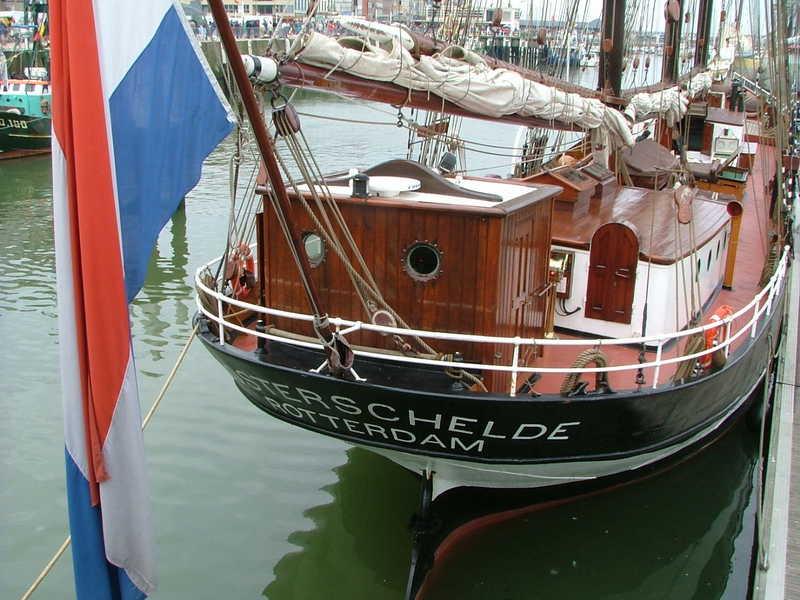 Dutch three-masted topsail schooner Oosterschelde